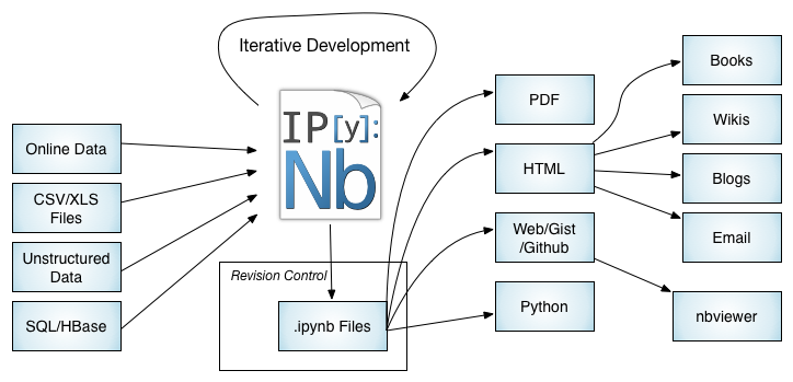 IPython Notebook workflows from input to output.